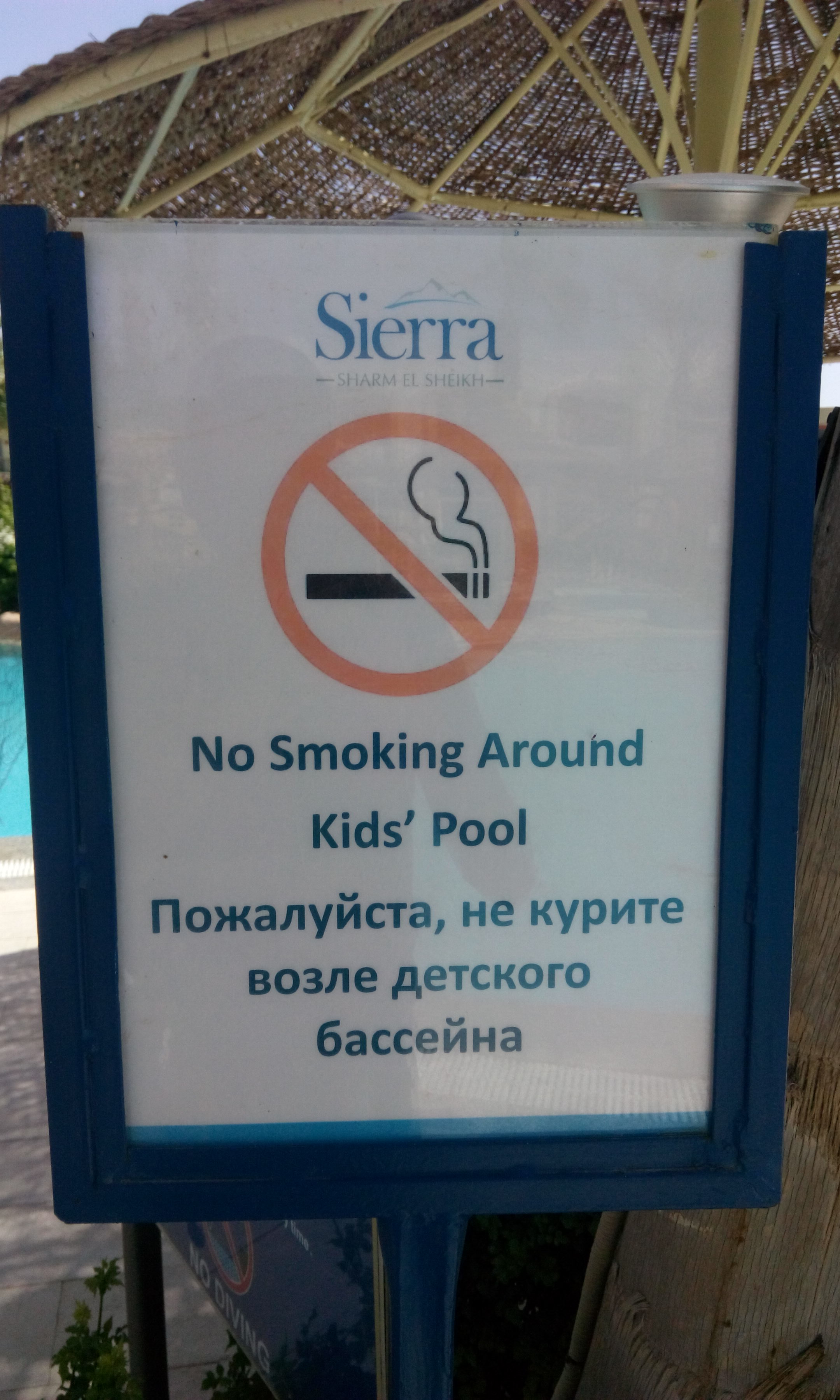 Sierra sharm el sheikh